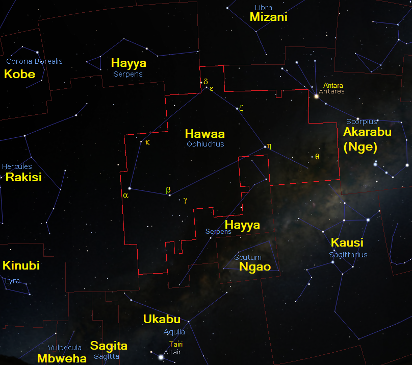 Constellation Ophiuchus as seen from Tanzania, Swahili labelled Kiswahili: Kundinyota Hawaa (Ophiuchus) jinsi inavyoonekana kutoka Tanzania, majina kwa Kiswahili